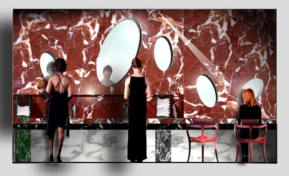 Enoteca Pinchiorri restaurant-Beijing project_2007